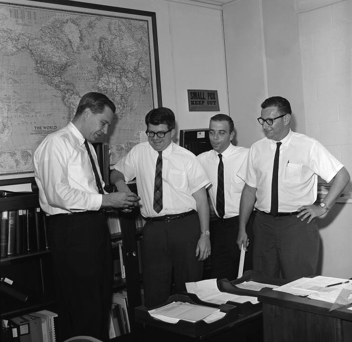 Standing left to right, this 1966 image showed Dr. Donald A. Henderson, Dr. J. Donald Millar, Dr. John J. Witte, and, Dr. Leo Morris, standing in one of the Centers for Disease Control and Prevention’s (CDC) former offices discussing what may have been epidemiologic findings related to the eradication of smallpox, an effort in which the CDC was integrally involved at the time. Dr. Donald A. Henderson, headed the international effort during the 1960s to eradicate smallpox. Dr. J. Donald Millar, was the former Director of the National Institute for Occupational Safety and Health (NIOSH) from 1981 through 1993 From 1963 until 1970, he directed CDC's Smallpox Eradication Program. Dr. John J. Witte, was the former Chief of the organization’s Immunization Branch, and Dr. Leo Morris who specialized in statistical analysis, and implementation of the newly-introduced jet injector vaccine-delivery system in the battle against smallpox.